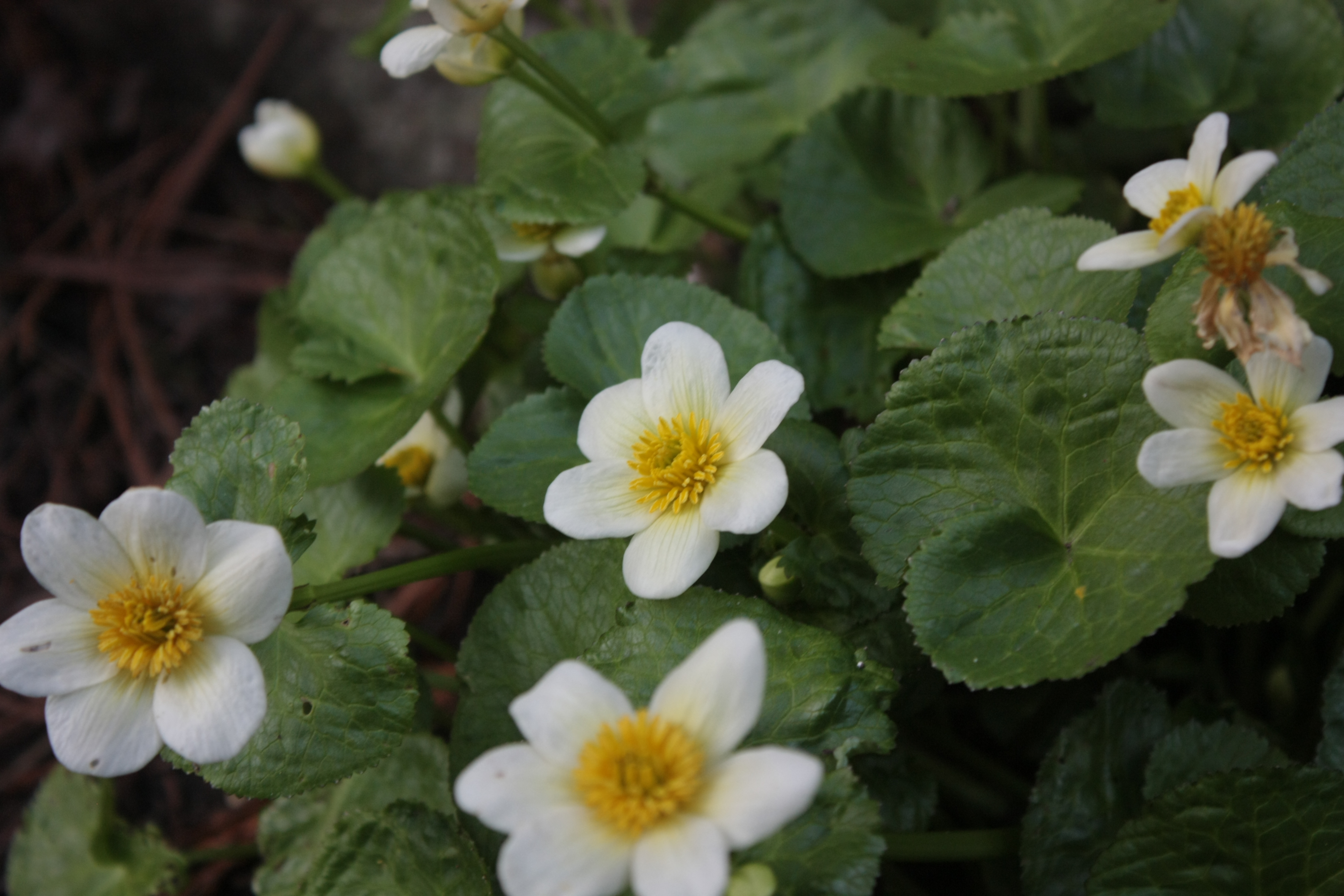 Some white-yellow kingcups. (Caltha Palustris L.)